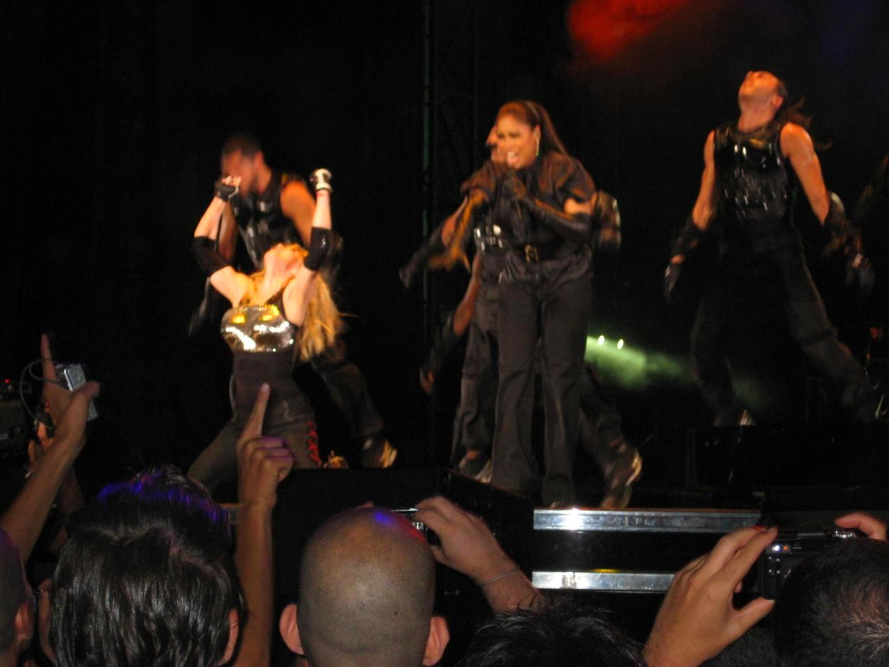 Madonna sits on the stage during "Like a Prayer", as Donna DeLory accompanies her on vocals